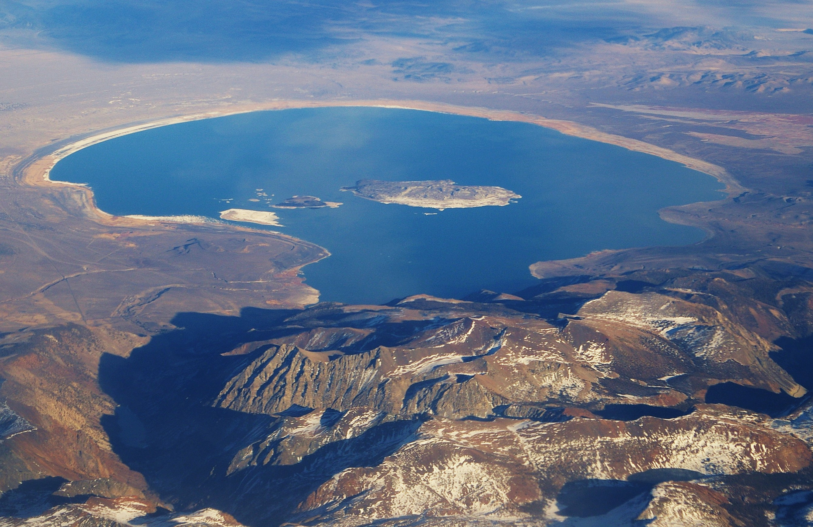 Mono Lake, located in the eastern foothills of the Sierra Nevada mountains, east of Yosemite National Park. Paoha Island in the middle of the lake.